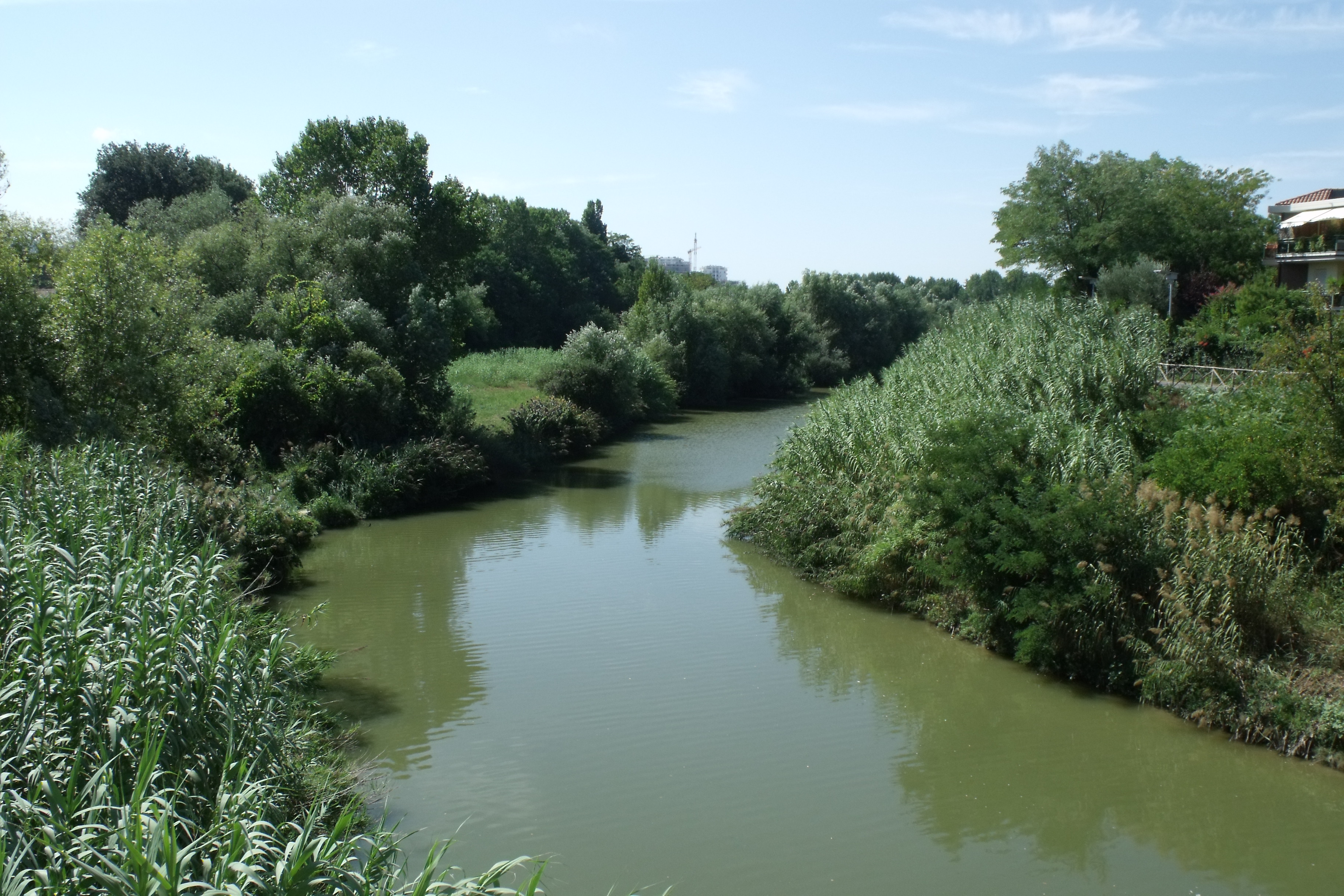 The River Foglia in Pesaro